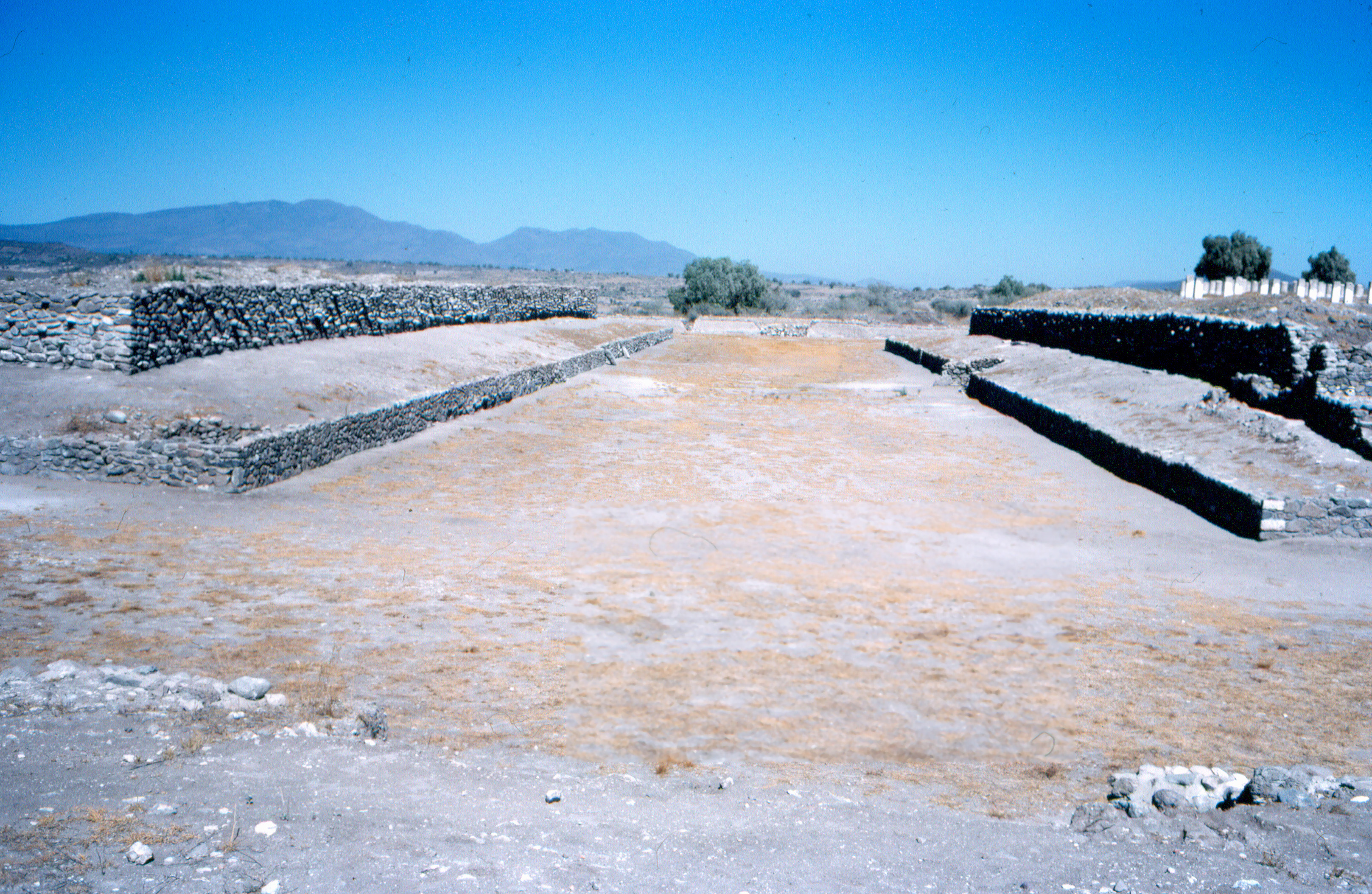 Tula, Hidalgo, Mexico: Ballcourt 2